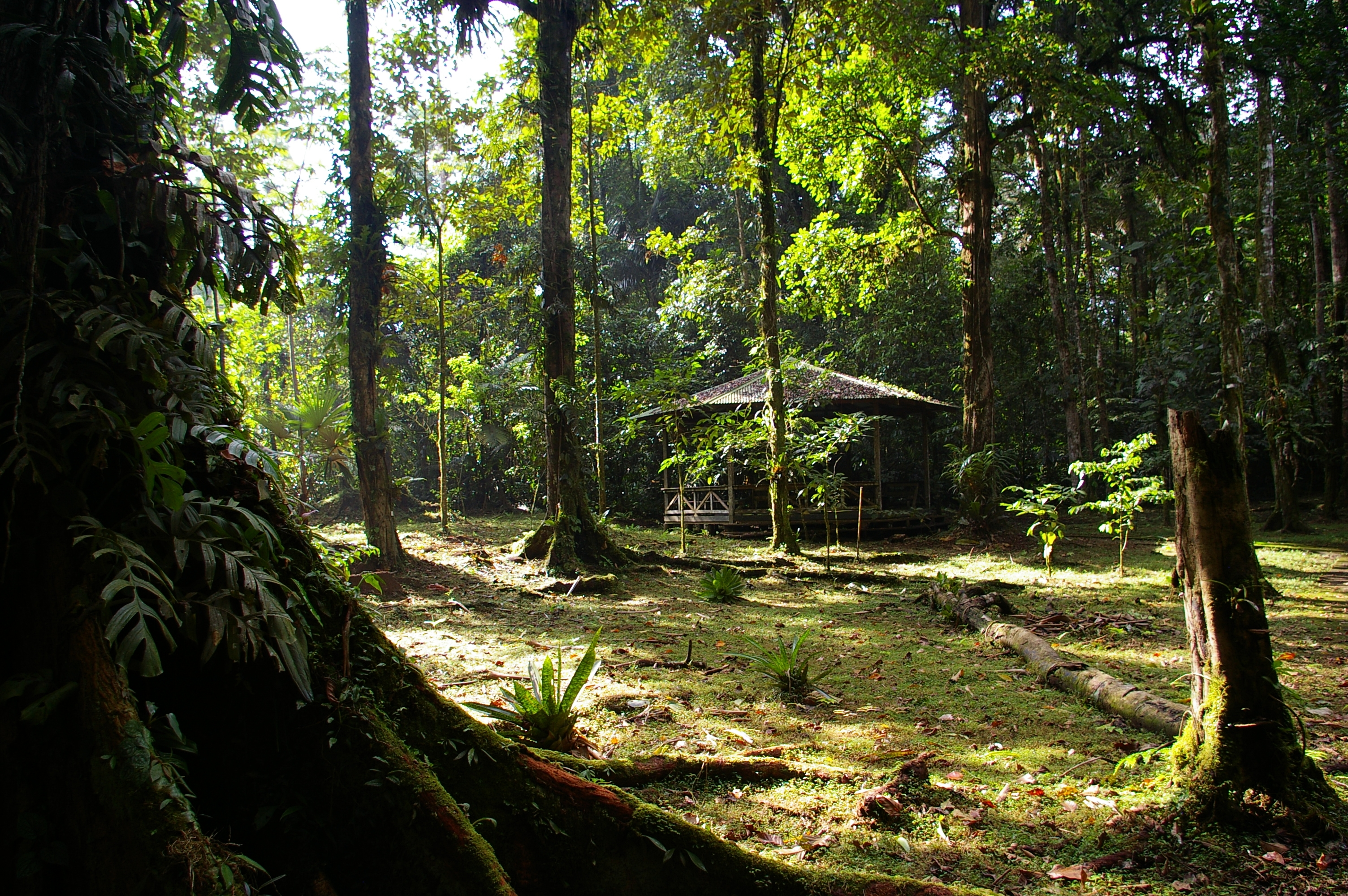 Arboletum at La Selva Biological Station